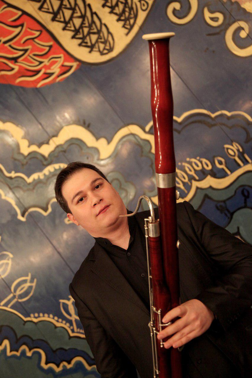 Alireza Motevaseli ,Persian Composer , Bassoonist